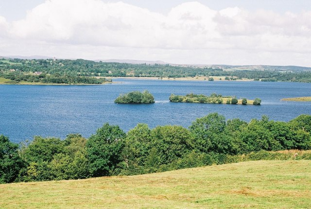 Magnificent view over Lower Lough Erne in County Fermanagh in Ireland.